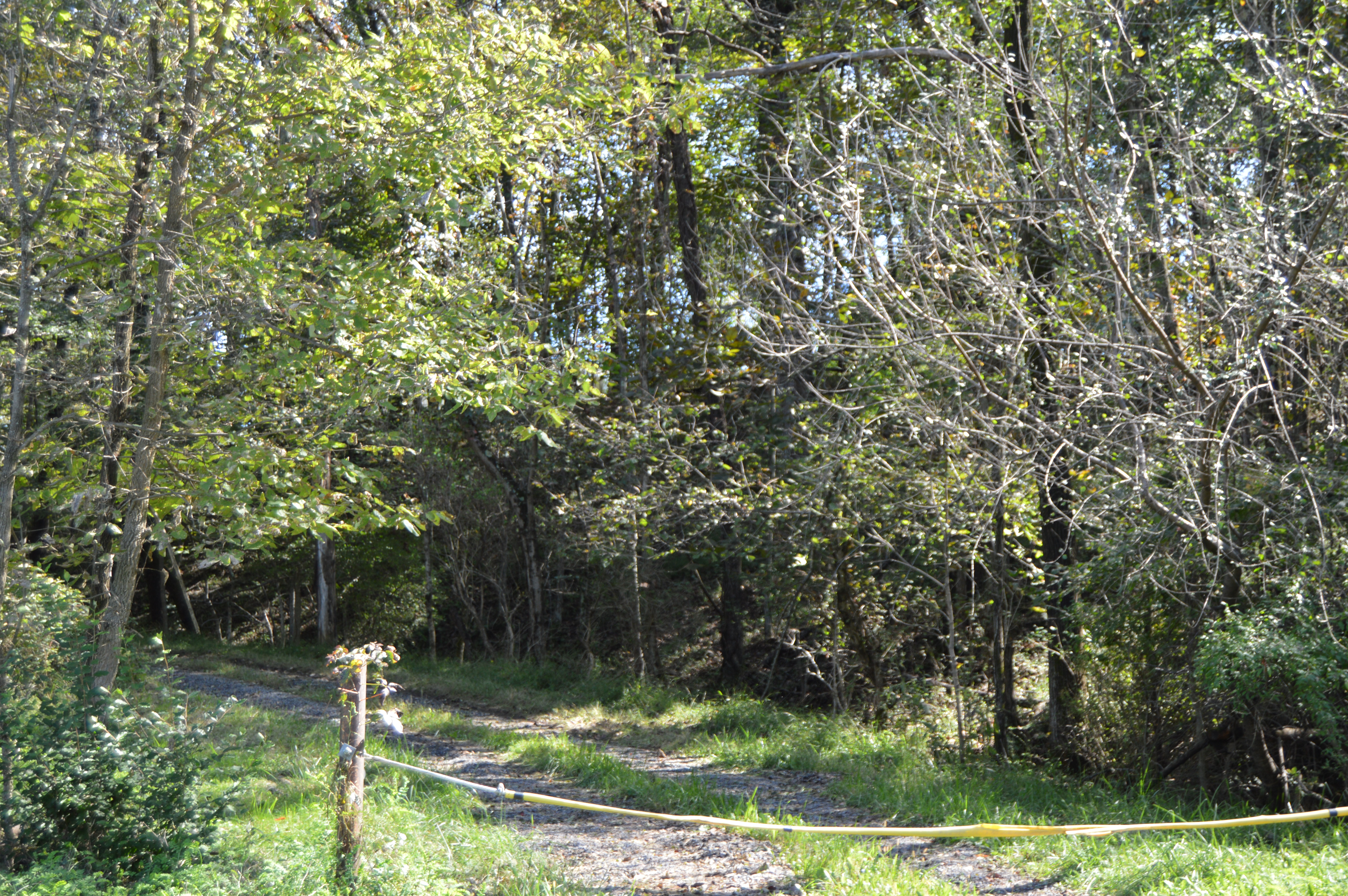 Driveway entrance to the Sycamore Dale estate, located off South Branch River Road near Romney in Hampshire County, West Virginia, United States. The property is listed on the National Register of Historic Places.